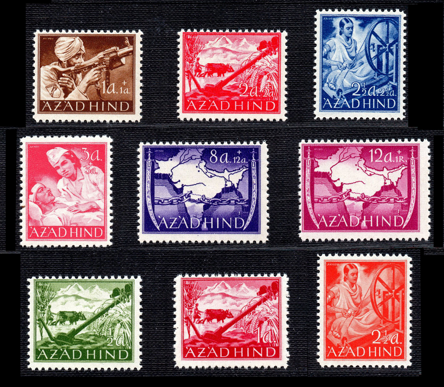 Lower denominations of "Azad Hind"-stamps. Produced in Germany 1943 for Subhas Chandra Boses "Azad Hind", but never issued. The top six stamps were prepared for "Continental India", the lower three ones with no surcharge for the Andaman and Nicobar-Islands.